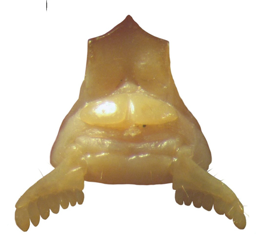 Euscorpius avcii, female, sternum, genital operculum and pectines